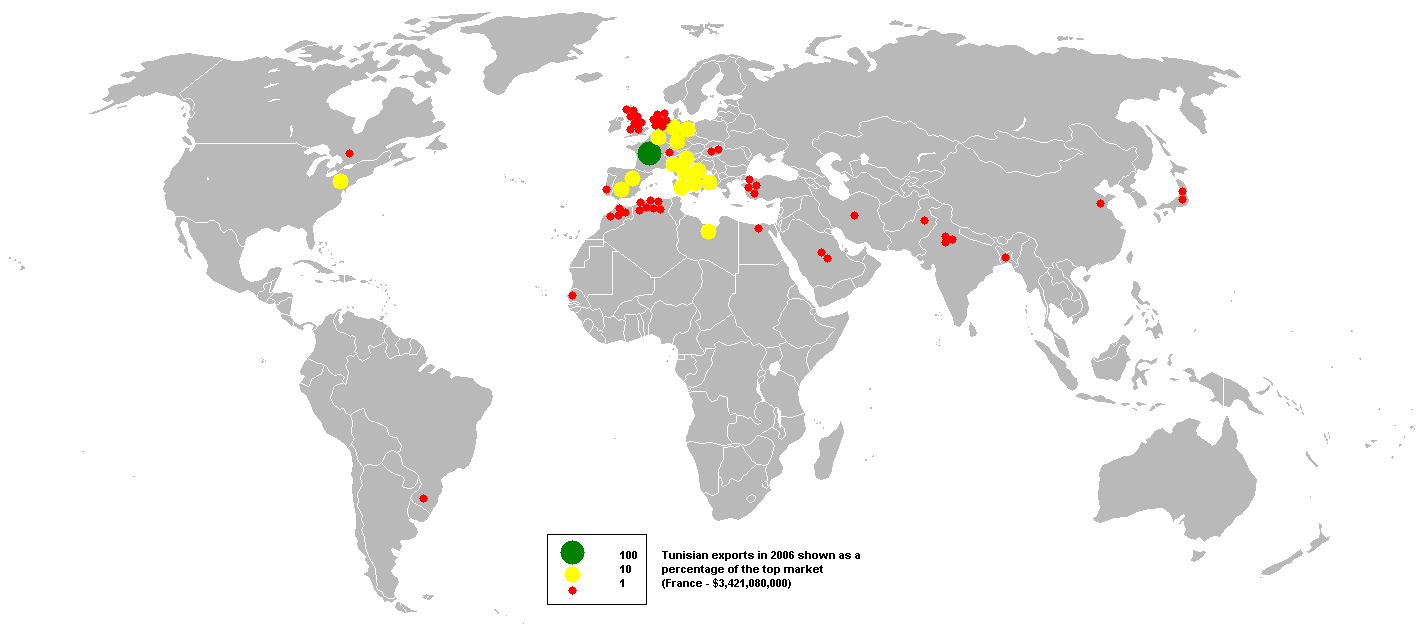 This bubble map shows the global distribution of Tunisian exports in 2006 as a percentage of the top market (France - $3,421,080,000). This map is consistent with incomplete set of data too as long as the top producer is known. It resolves the accessibility issues faced by colour-coded maps that may not be properly rendered in old computer screens. Data was extracted on 19th September 2007 from Based on :Image:BlankMap-World.png